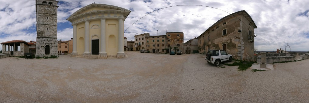 Panorama of the center of Višnjan